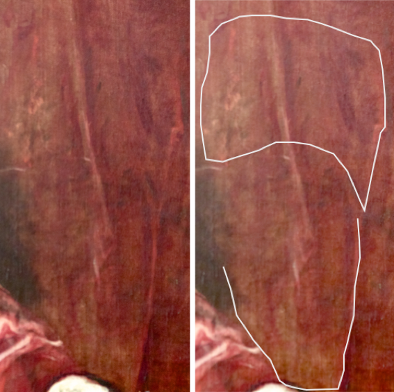 Latent image in the curtain of Velásquez's pope Innocent X